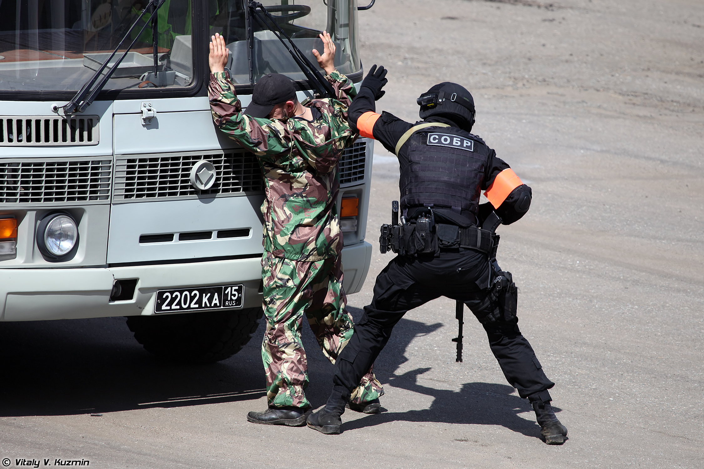 Moscow SOBR showed hostage rescue actions